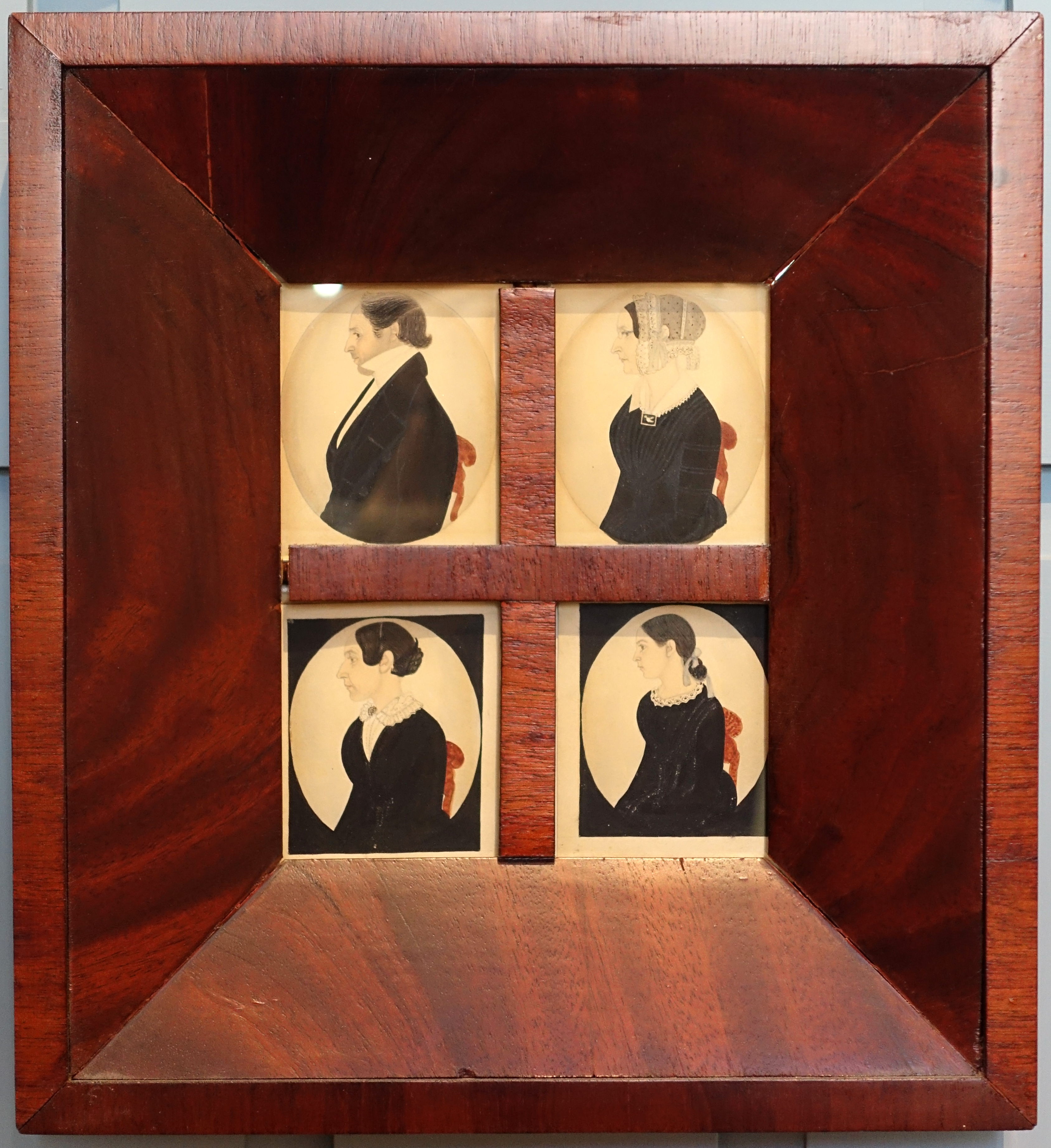 Exhibit in the Bennington Museum - Bennington, Vermont, USA. This work is in the public domain because the artist died more than 70 years ago.